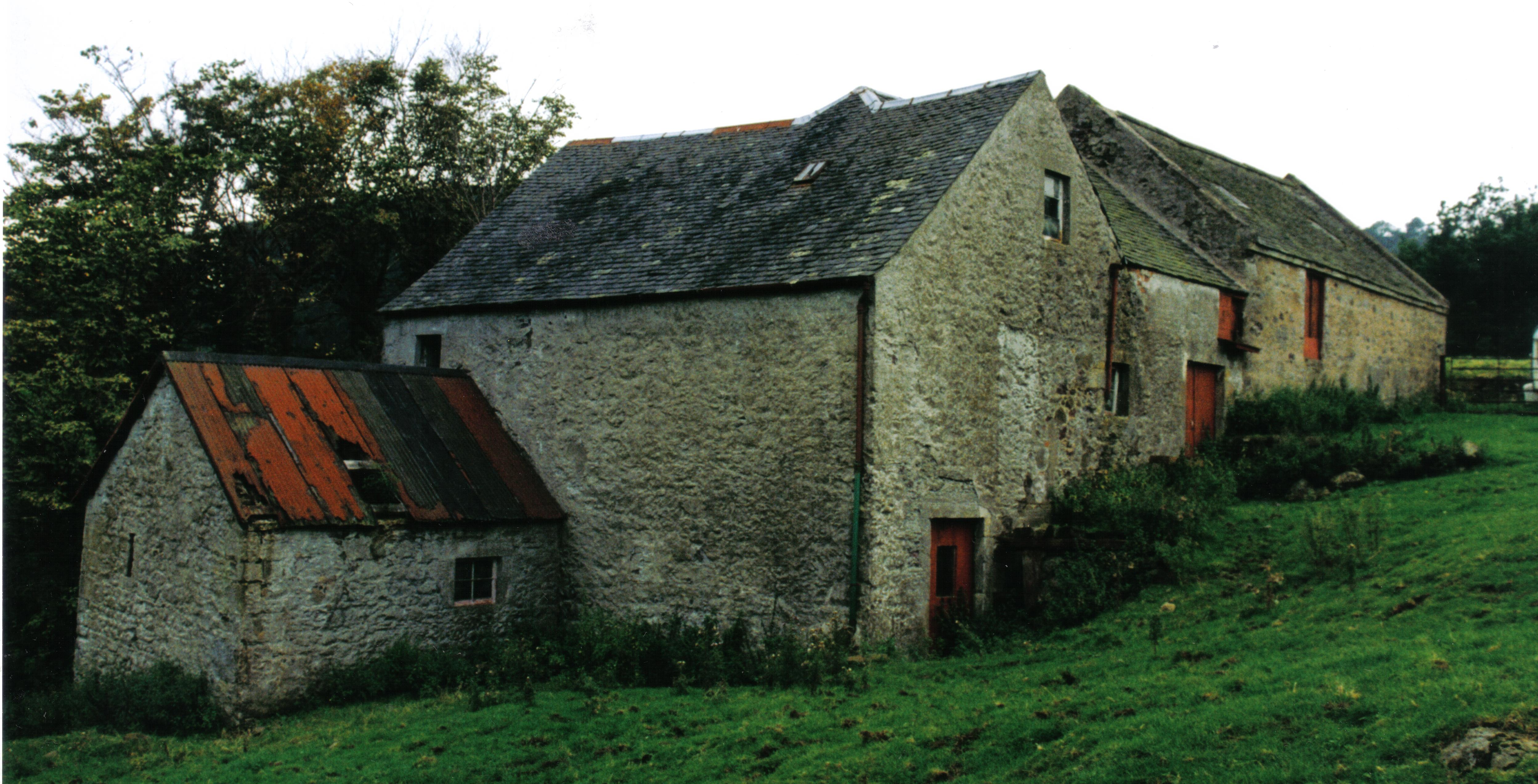 The upper Kiln building and other main buildings of Coldstream Mill, near Beith in North Ayrshire. Circa 1999.